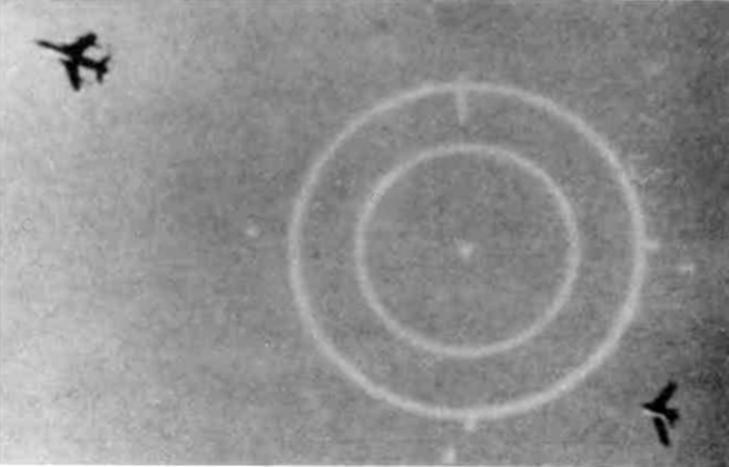 A North Vietnamese Mikoyan-Gurevich MiG-17 making a firing pass at a U.S. Air Force Republic F-105D Thunderchief over North Vietnam on 19 December 1967. The action was filmed by the gunsight of another USAF F-105.